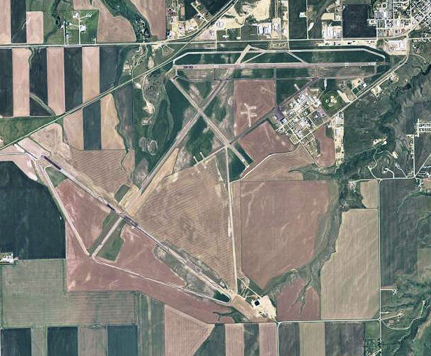 USGS digital orthophoto of Lewistown Municipal Airport in Montana